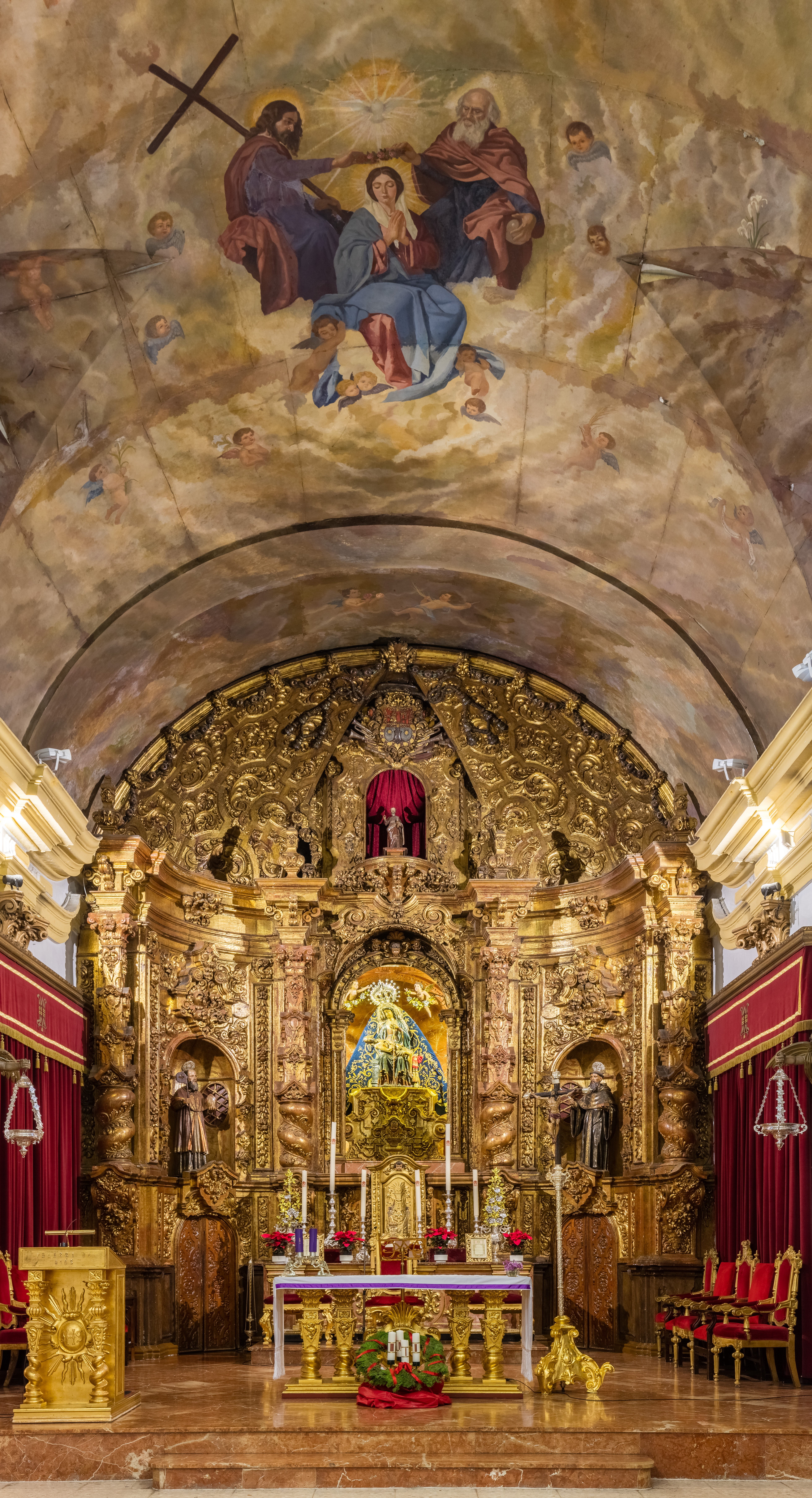 The church of Santa María de África is a Roman Catholic church located in the city of Ceuta, a Spanish exclave on the north coast of Africa. The temple is dedicated to Santa María de África, the patron saint of the city. In 1421 Henry the Navigator sent to Ceuta an image of Our Lady of Africa that guided to the first temple built to honour her in the current location, but no remains have been found from the medieval age. The church is of Baroque style and the first evidence of its existence dates from 1676. The church undergoed a renovation during the first half of the 18th century resulting in its current appearance.